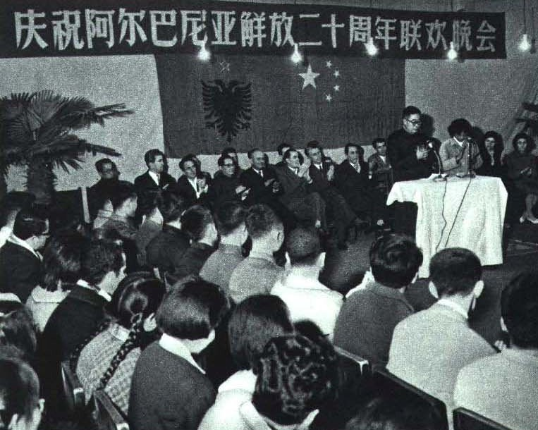 1965-01 北京大学庆祝阿尔巴尼亚解放20周年